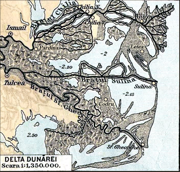 Map of Danube delta, flood areas, 1928.